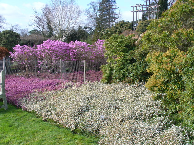 Heath Garden, Nymans Purple and white winter heather blooming beside purple blossom.